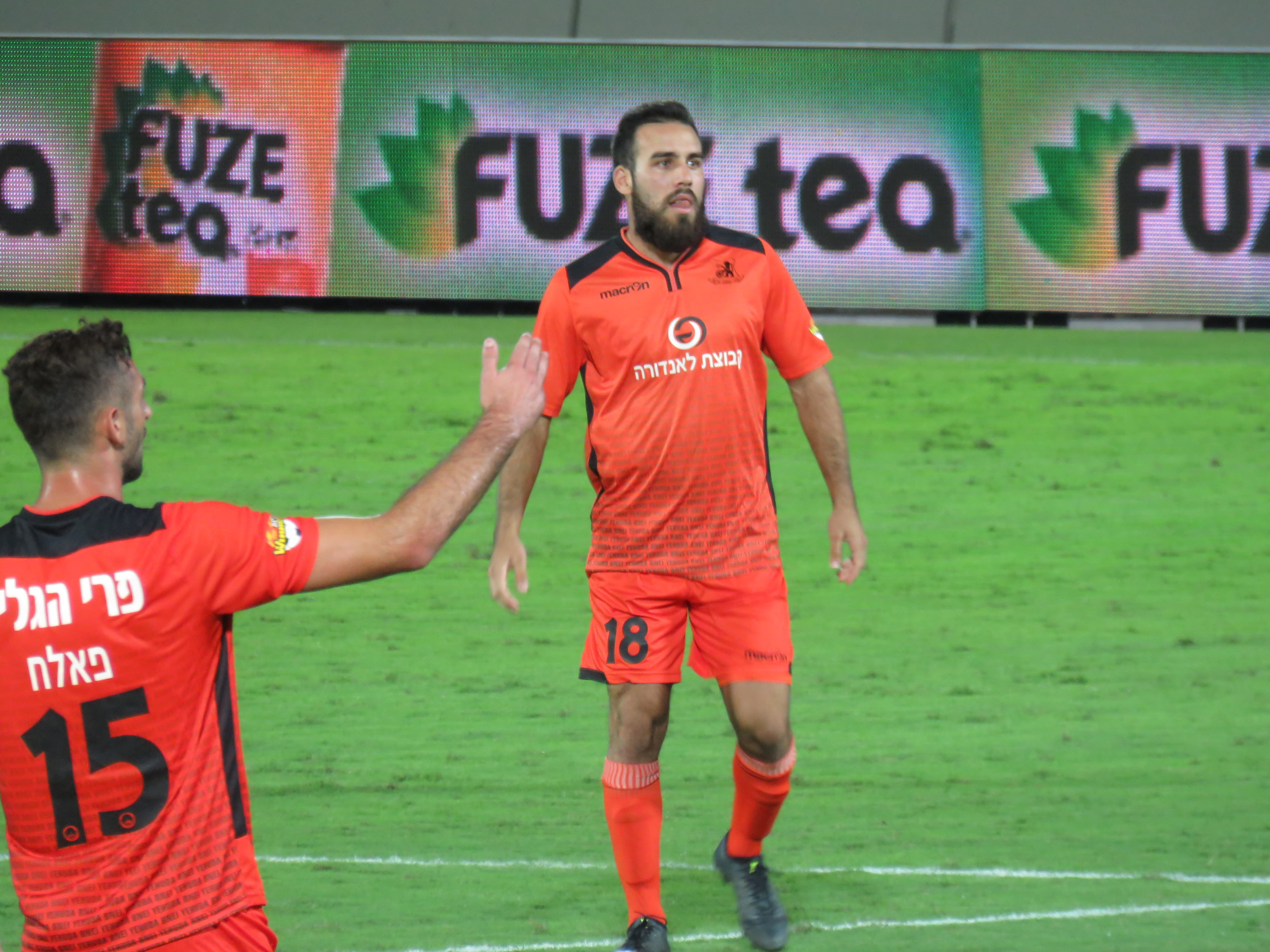 Bnei Yehuda Tel Aviv vs. Beitar Jerusalem - 19 September, 2015